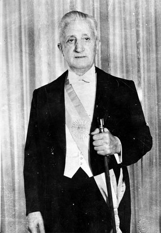 Official portrait of Arturo Illia as President of Argentina, posing with the presidential sash and baton.